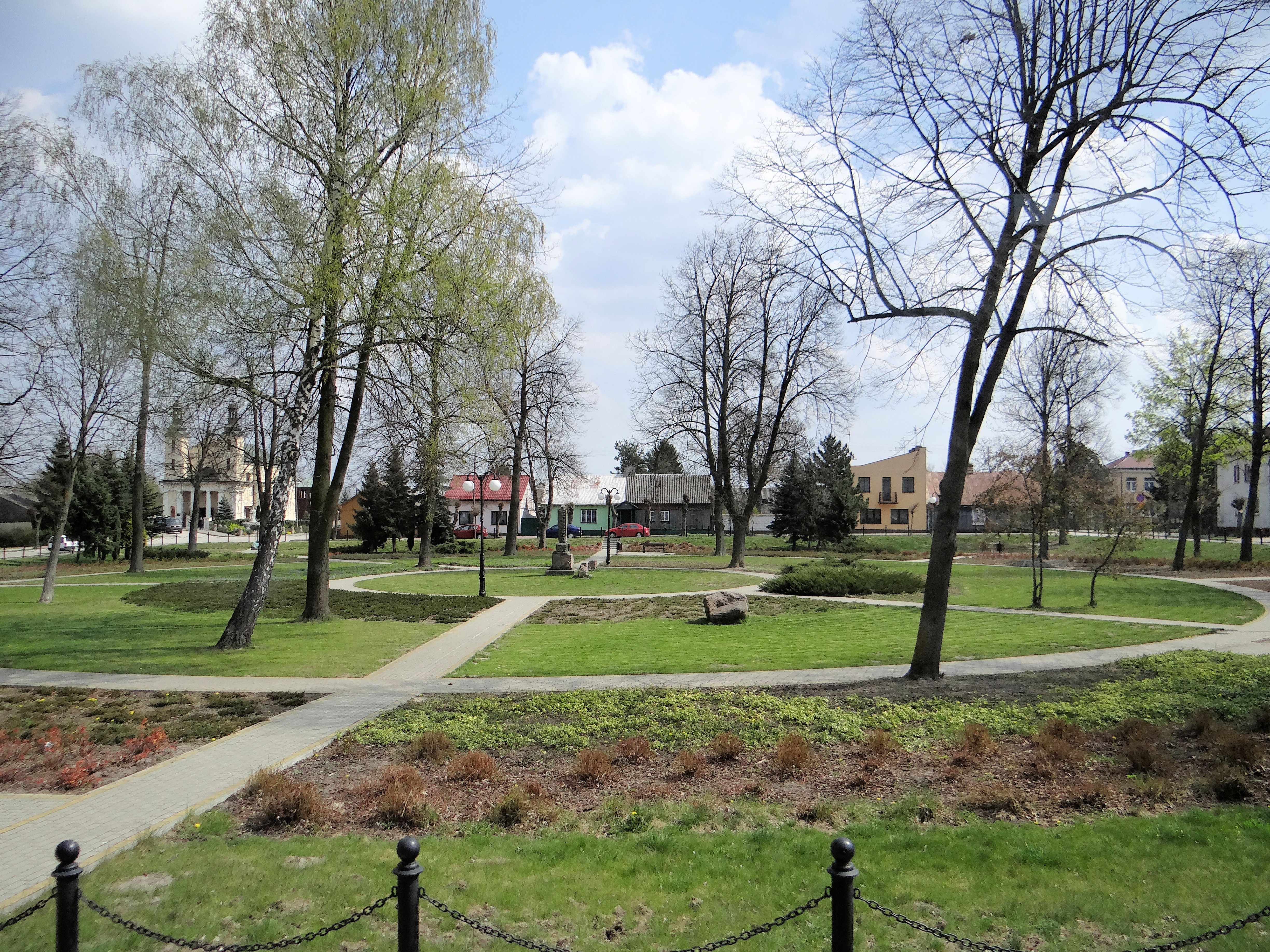 Freedom Square in Wyśmierzyce